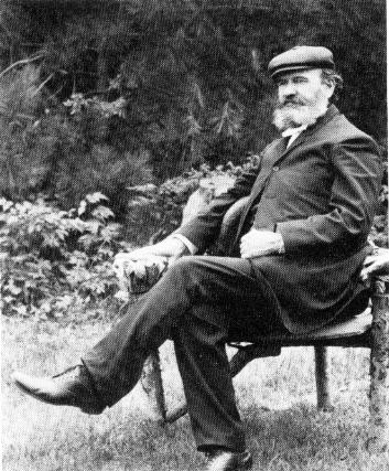 AB Simpson sitting on his chair